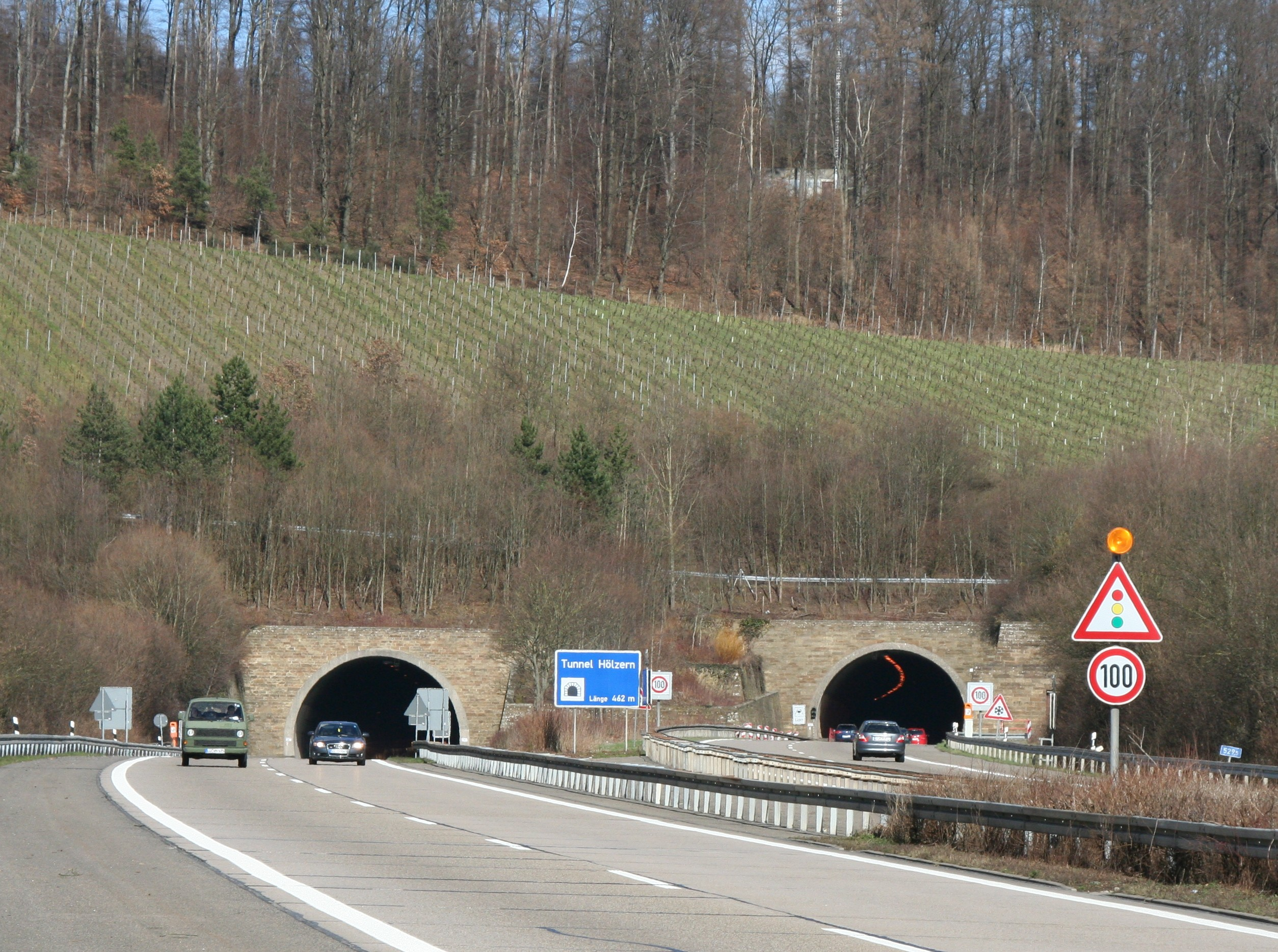 The Hölzern tunnel of the Autobahn 81 in Eberstadt-Hölzern. South portal